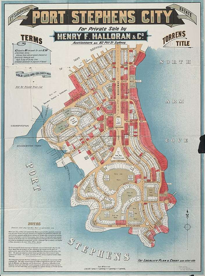 Advertisement for sale allotments for "Port Stephens City", on the site of the modern day North Arm Cove, New South Wales